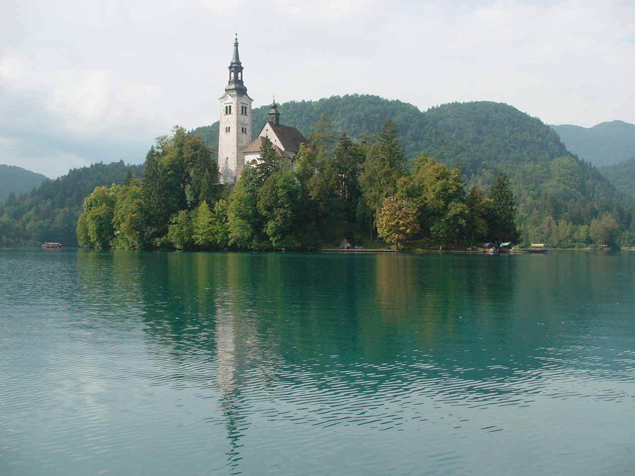 Bled island with church on Lake Bled, Slovenia